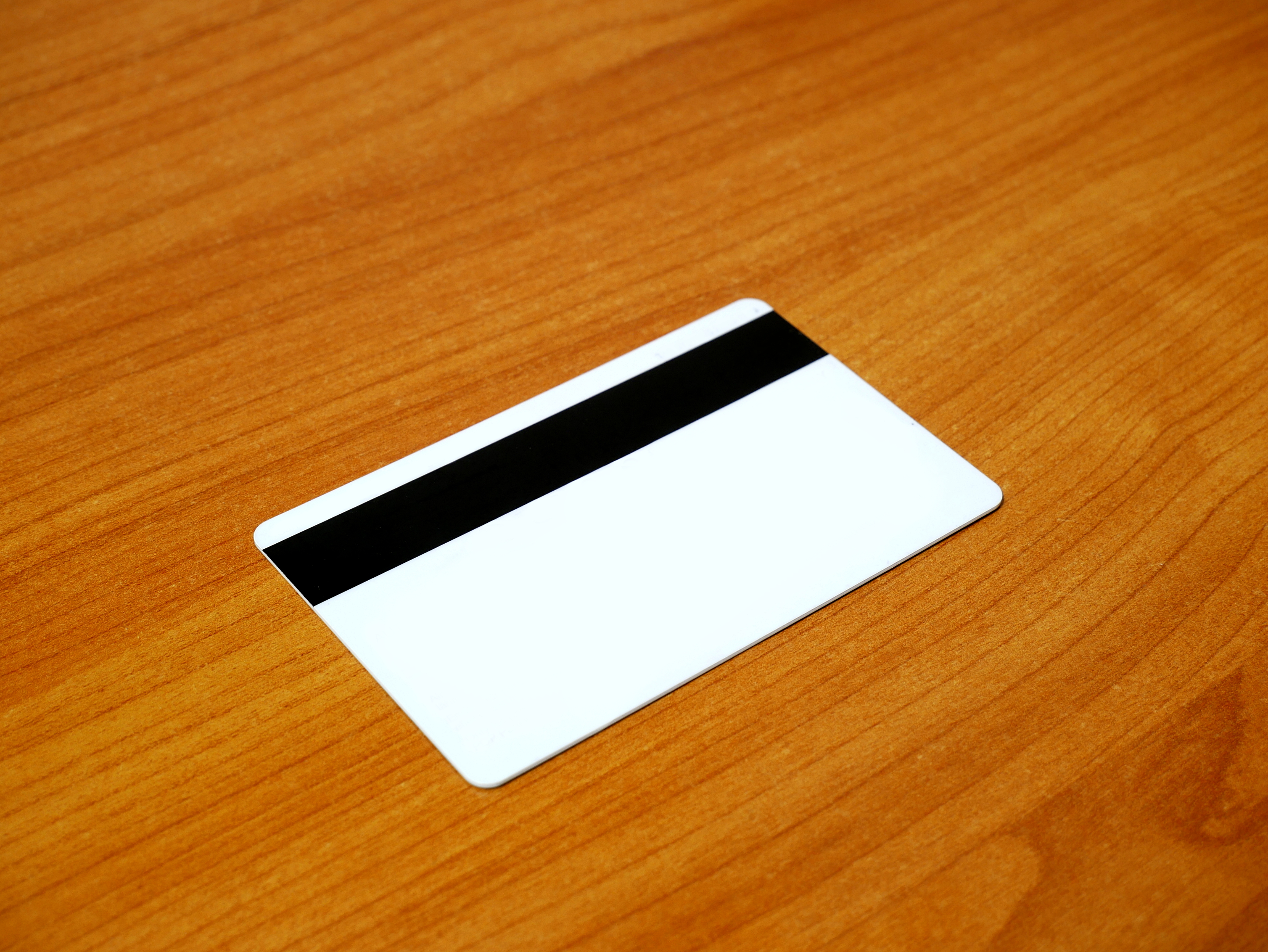 Blank back of payment card.